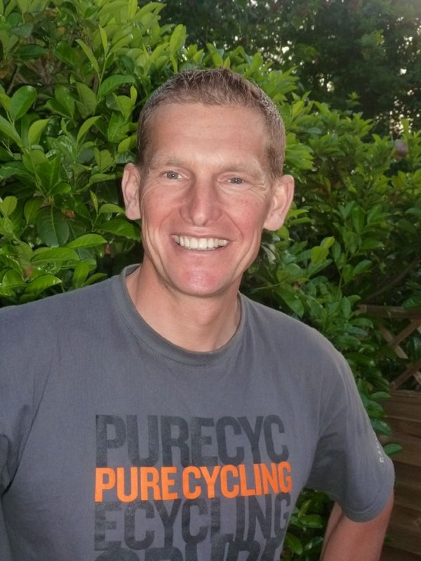 Andreas Walzer